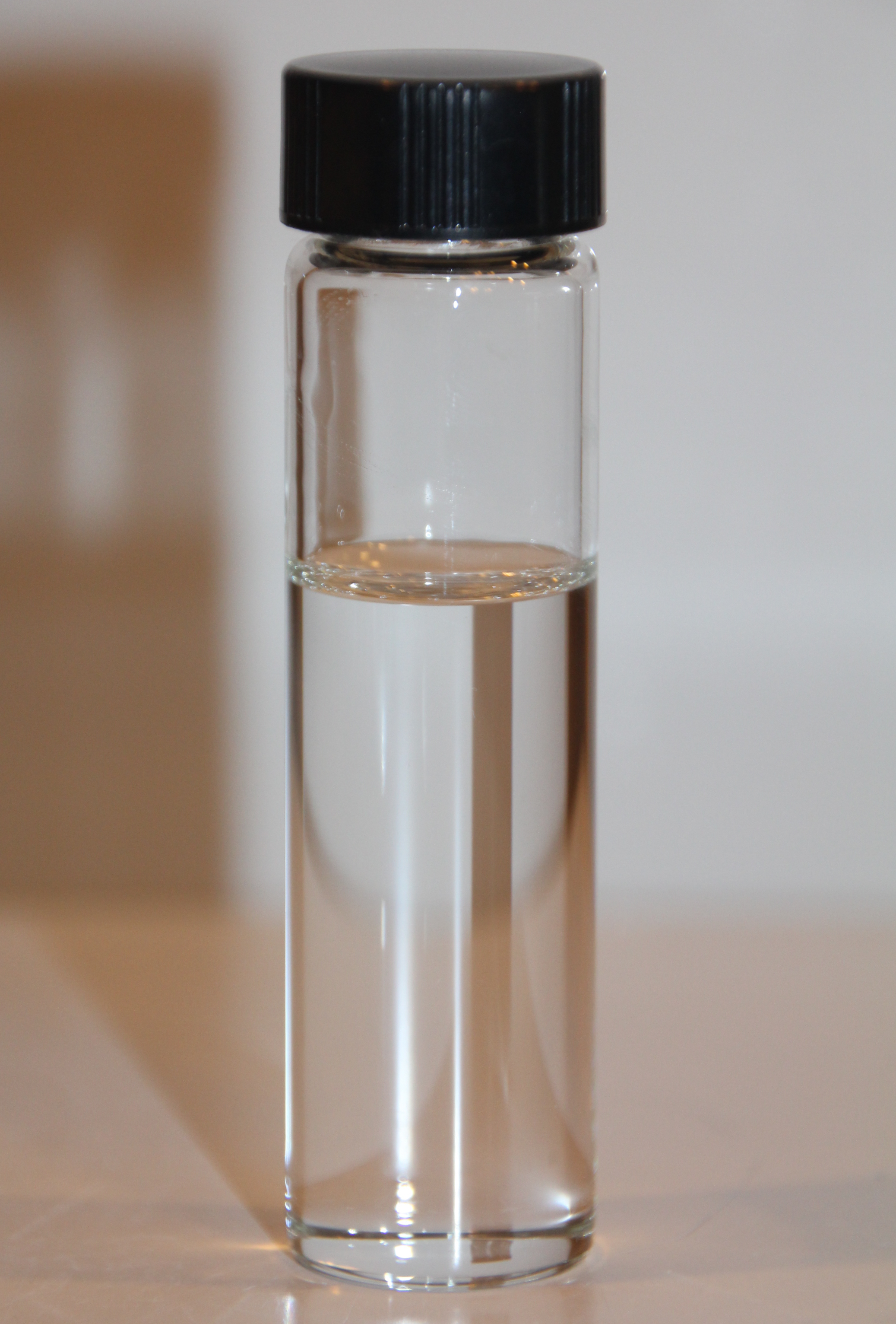 Samlpe of Ethylene glycol